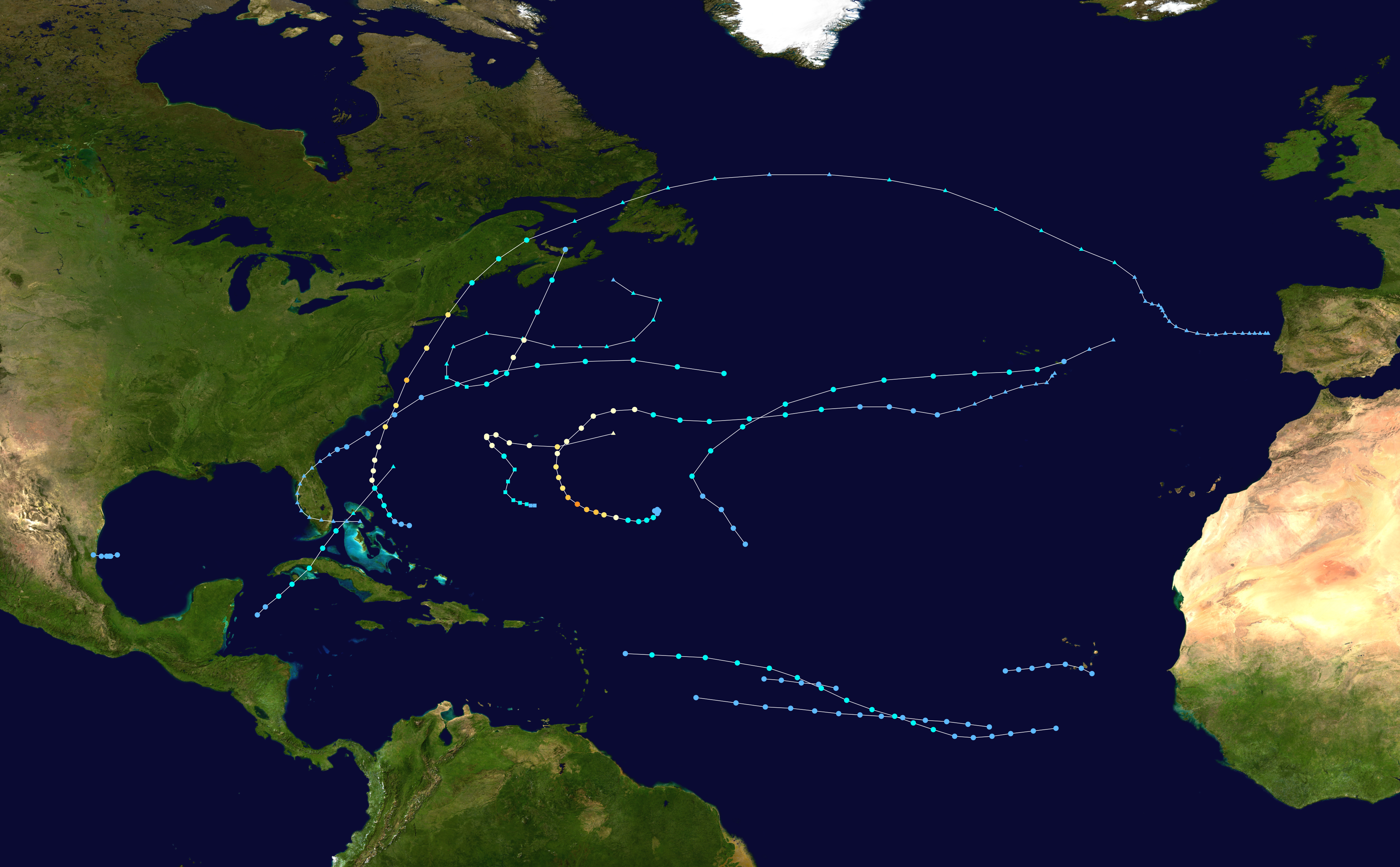 This map shows the tracks of all tropical cyclones in the 1991 Atlantic hurricane season. The points show the location of each storm at 6-hour intervals. The colour represents the storm's maximum sustained wind speeds as classified in the Saffir-Simpson Hurricane Scale (see below), and the shape of the data points represent the type of the storm. Saffir–Simpson scale Tropical depression≤38 mph≤62 km/h Category 3111–129 mph178–208 km/h Tropical storm39–73 mph63–118 km/h Category 4130–156 mph209–251 km/h Category 174–95 mph119–153 km/h Category 5≥157 mph≥252 km/h Category 296–110 mph154–177 km/h Unknown Storm type Tropical cyclone Subtropical cyclone Extratropical cyclone / Remnant low / Tropical disturbance / Monsoon depression